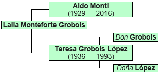 Family tree of the actor Aldo Monti, who was born in Italy, but went to Mexico. His wife was an actress Teresa Grobois.